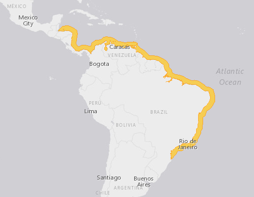 Distribuição Boto cinza IUCN